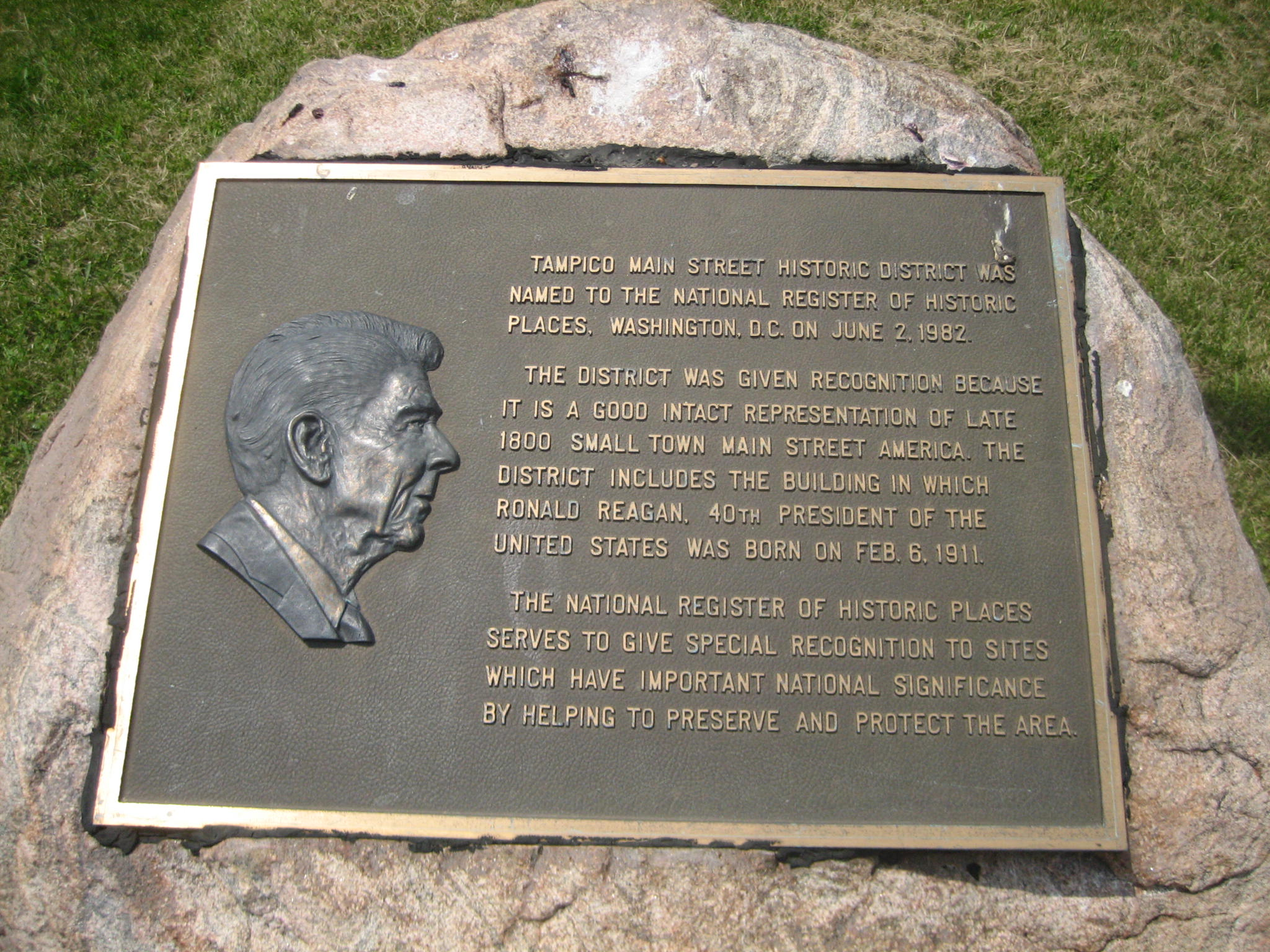 Main Street Historic District, Tampico, Illinois. U.S. National Register of Historic Places. National Register Plaque.